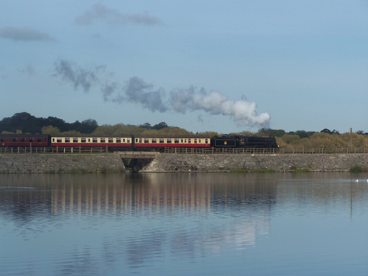 Author:Tina Cordon, Source:Own Picture, Tina Cordon 16:18, 3 November 2006 (UTC)